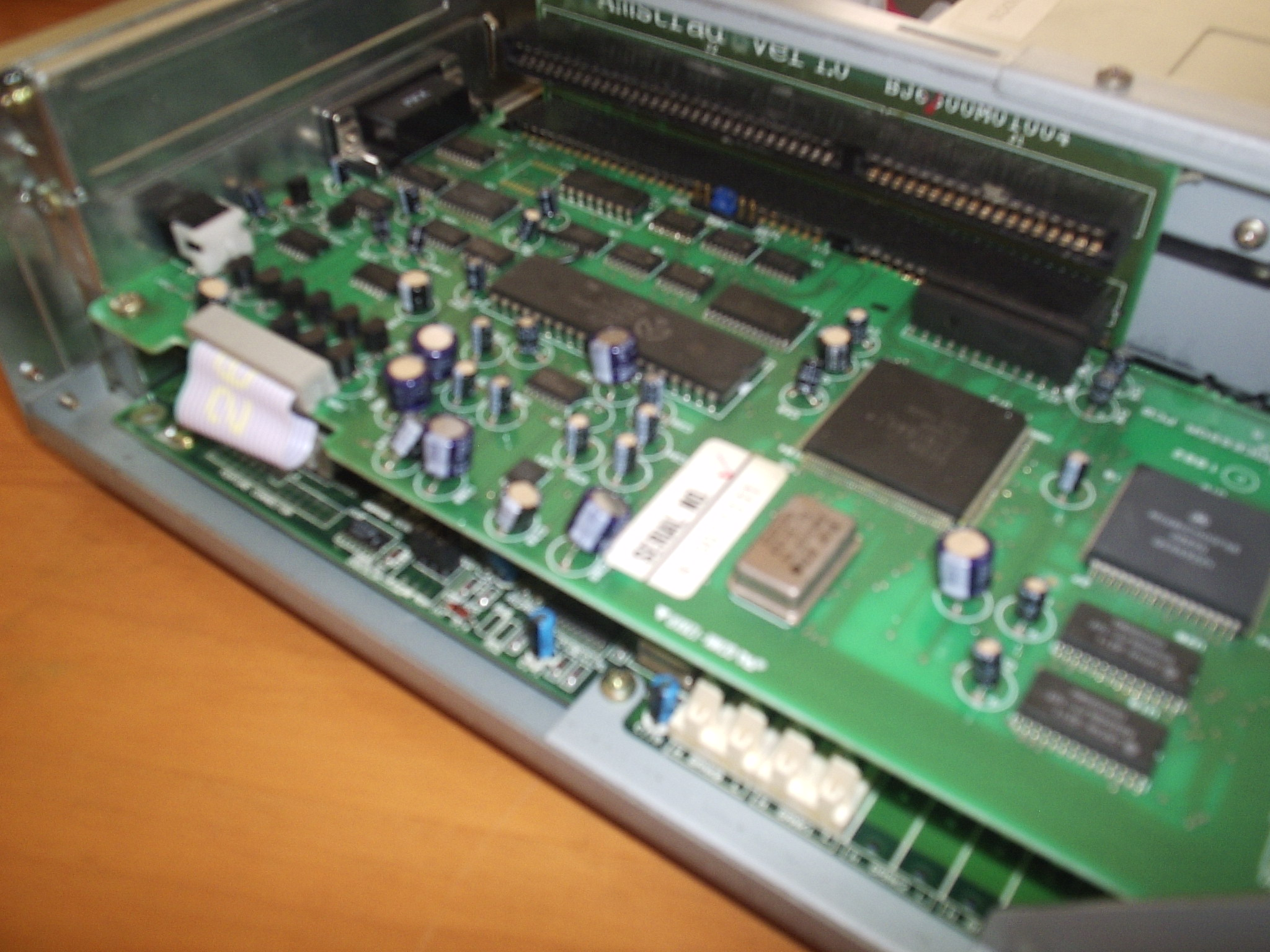 A view of the Mega Drive ISA Card fitted into an Amstrad Mega PC. Picture was taken by myself of my own equipment.